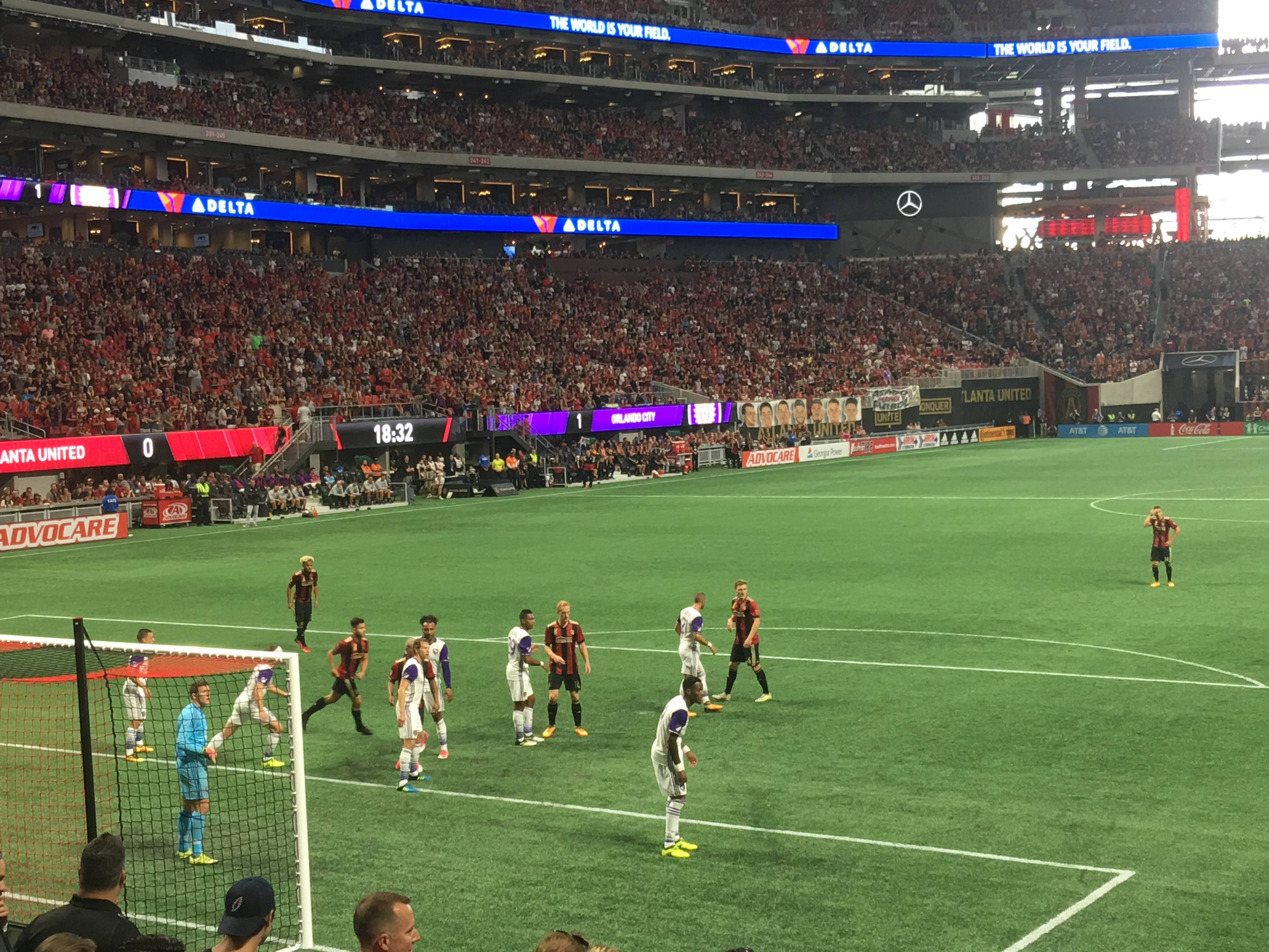 2017-09-16 - Atlanta United vs Orlando City